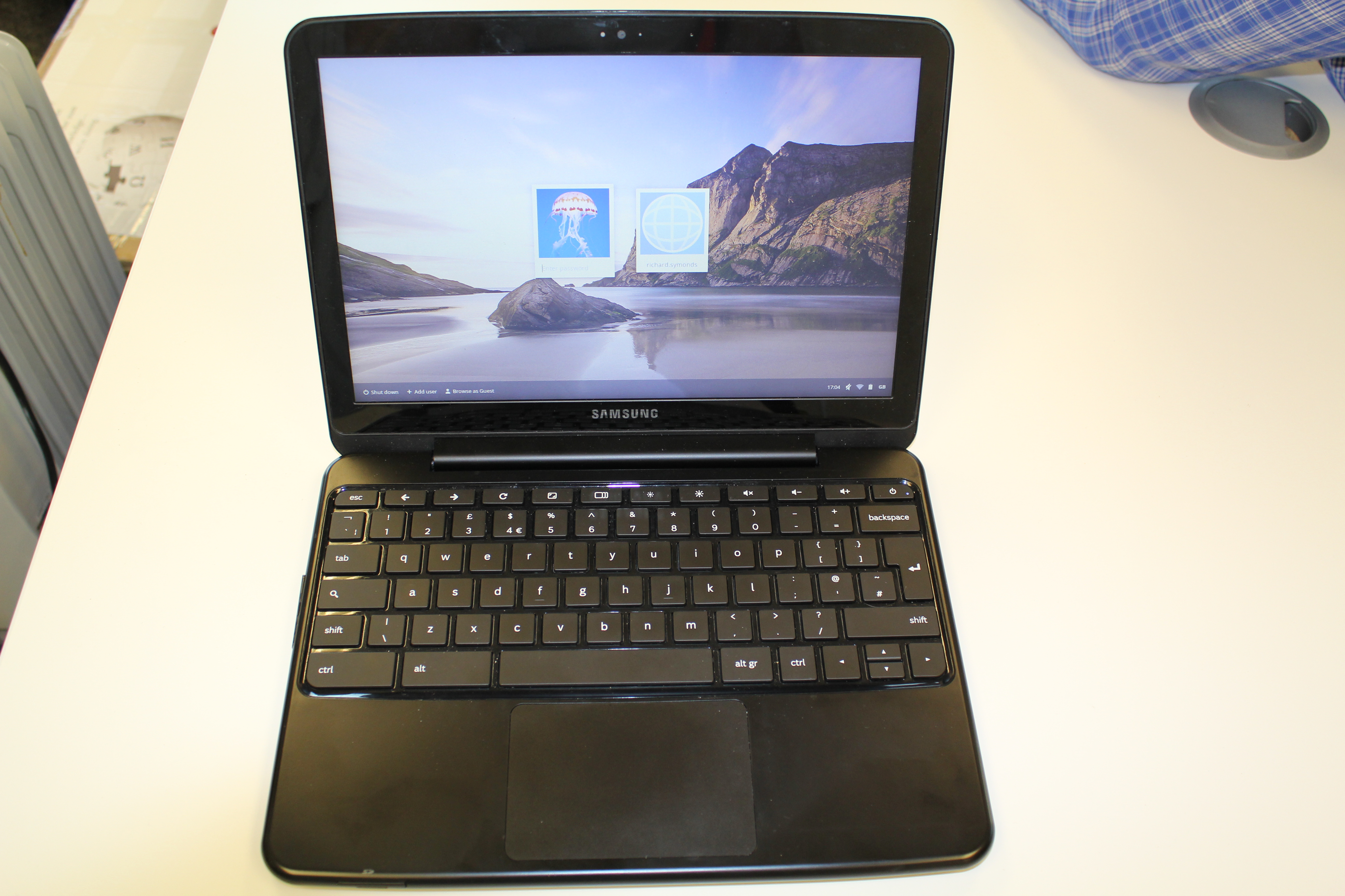 WMUK's Samsung Chromebook.